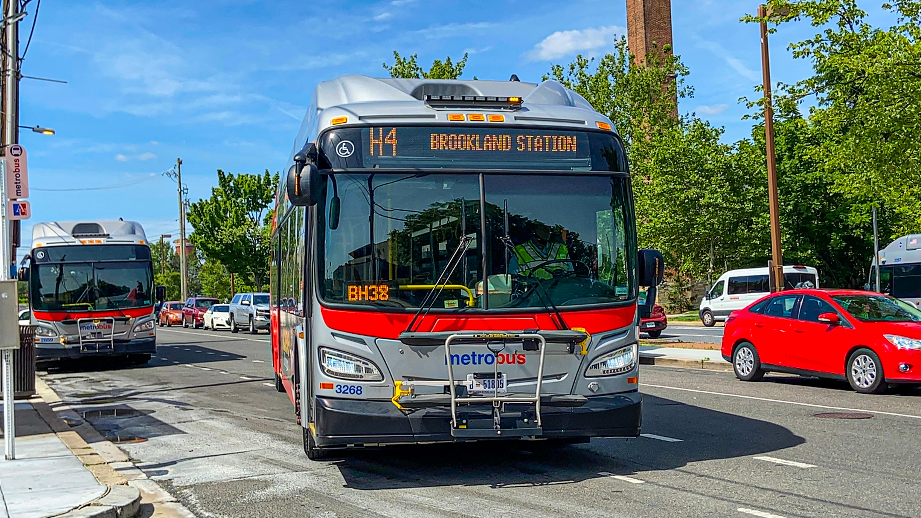 WMATA 2019 New Flyer XN40 3268 on Route H4 at Tenleytown station